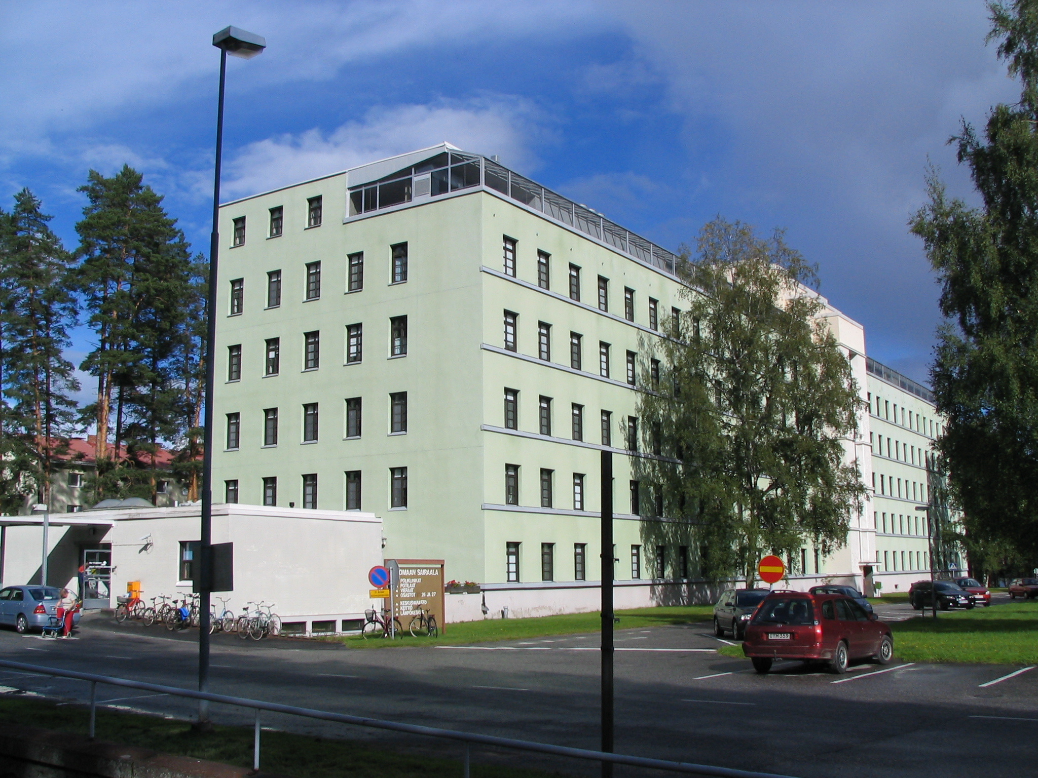 Kinkomaa Hospital, Muurame, Finland. The architect was Jussi Paatela.